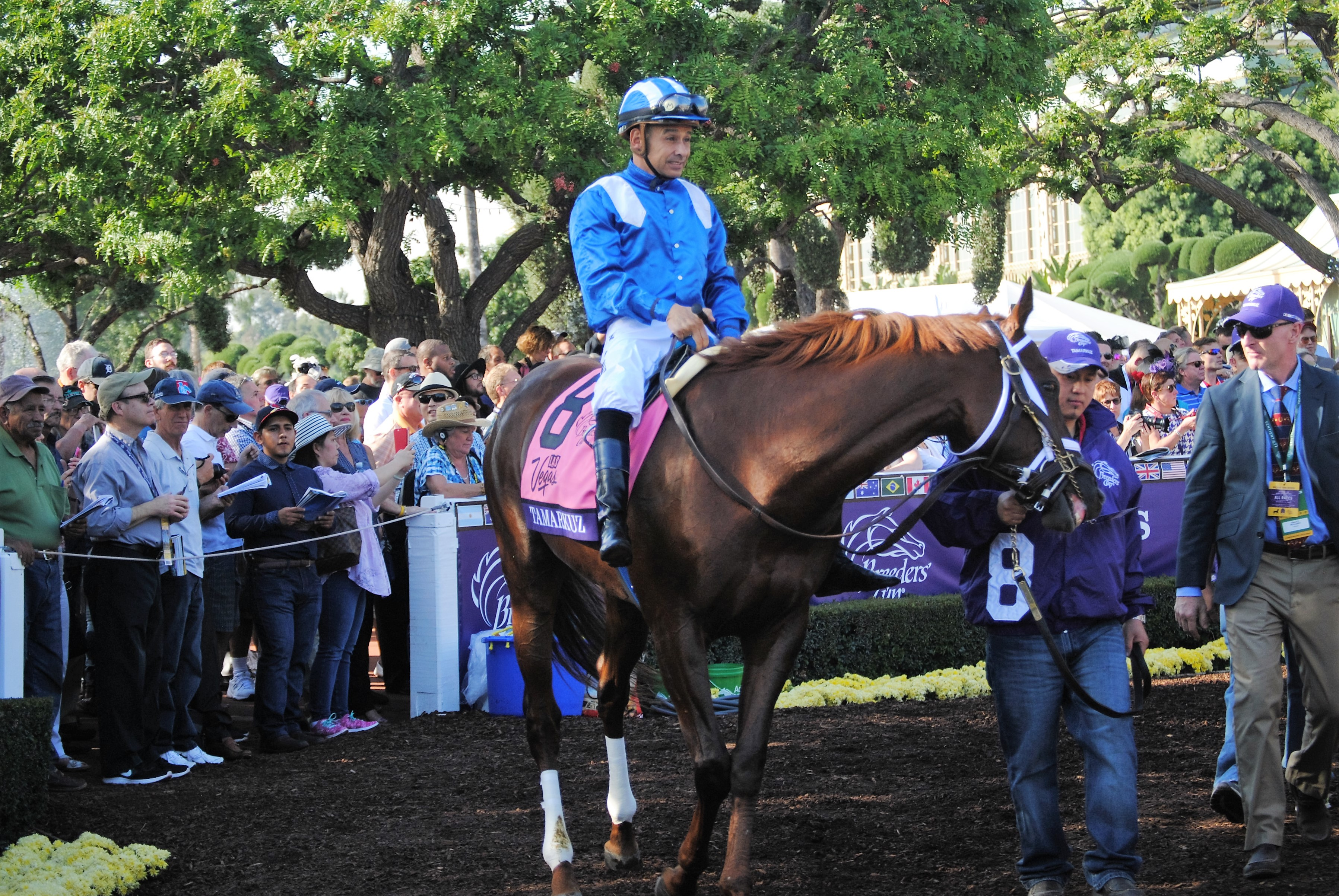 Tamarkuz before the Breeders' Cup Dirt Mile. Jockey Mike Smith